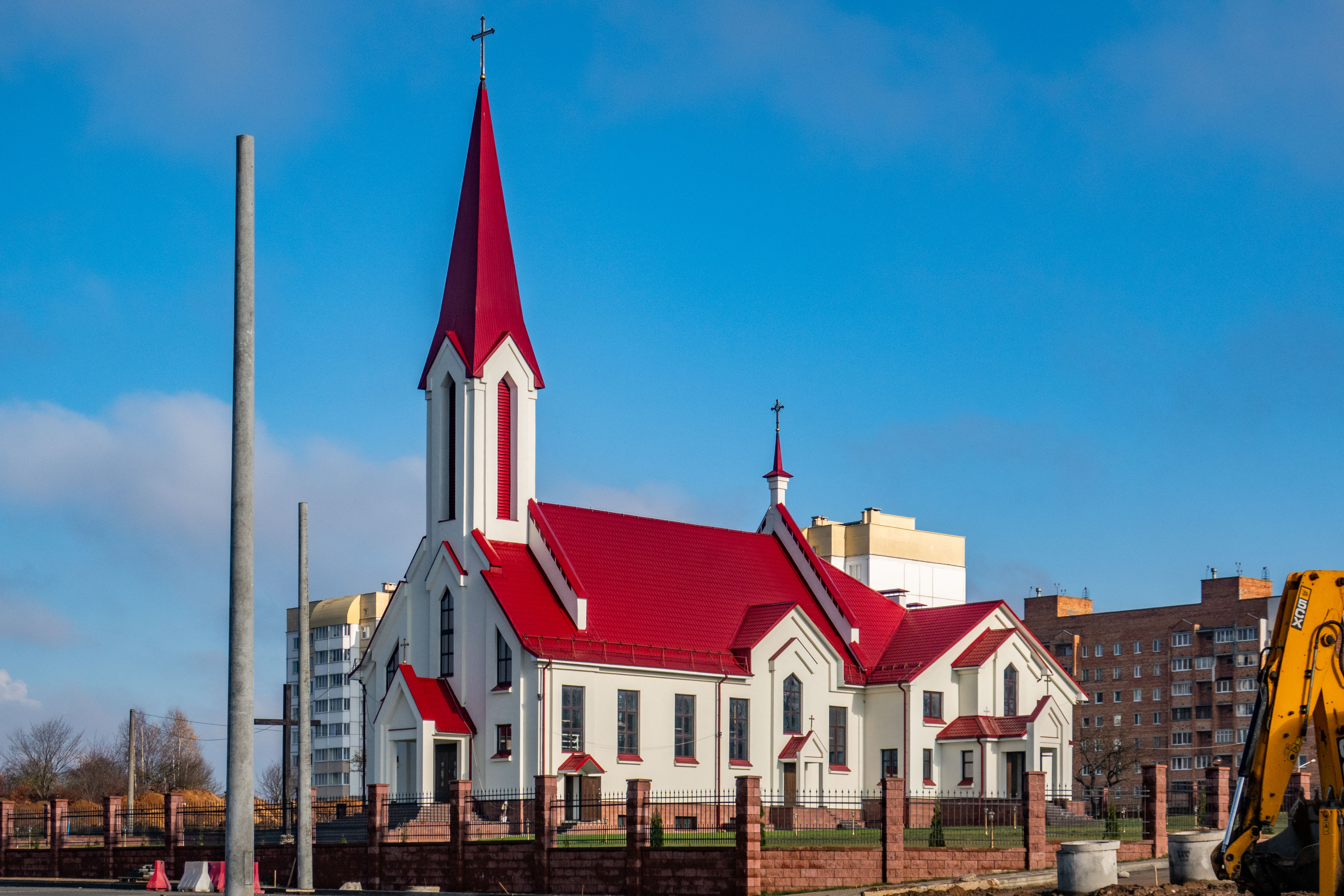 Holy spirit Roman catholic church. Minsk, Belarus